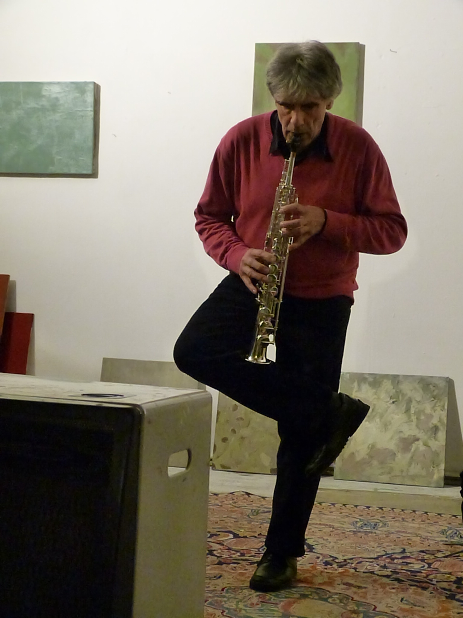 Philippe Micol (s) (Switzerland) in the improvising concert "SOUNDTRIP NRW # 41", initiated by Carl Ludwig Hübsch, with Sofia Jernberg (voc) (Norway) and Salim Javaid (s) (Czechia), October 28th, 2018 at Atelier Dürrenfeld/Geitel (Cologne), Germany